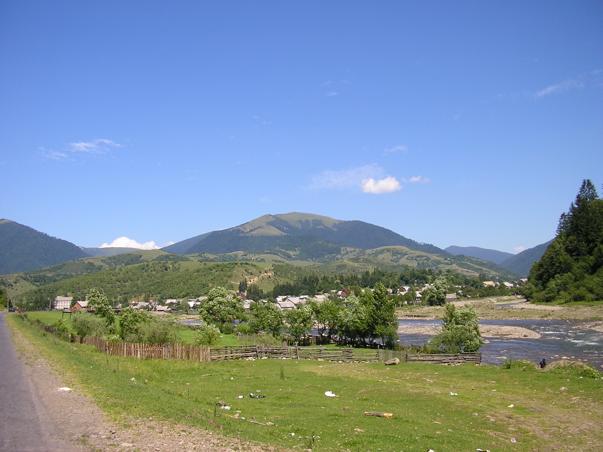 Kolochava. Mount Darvajka